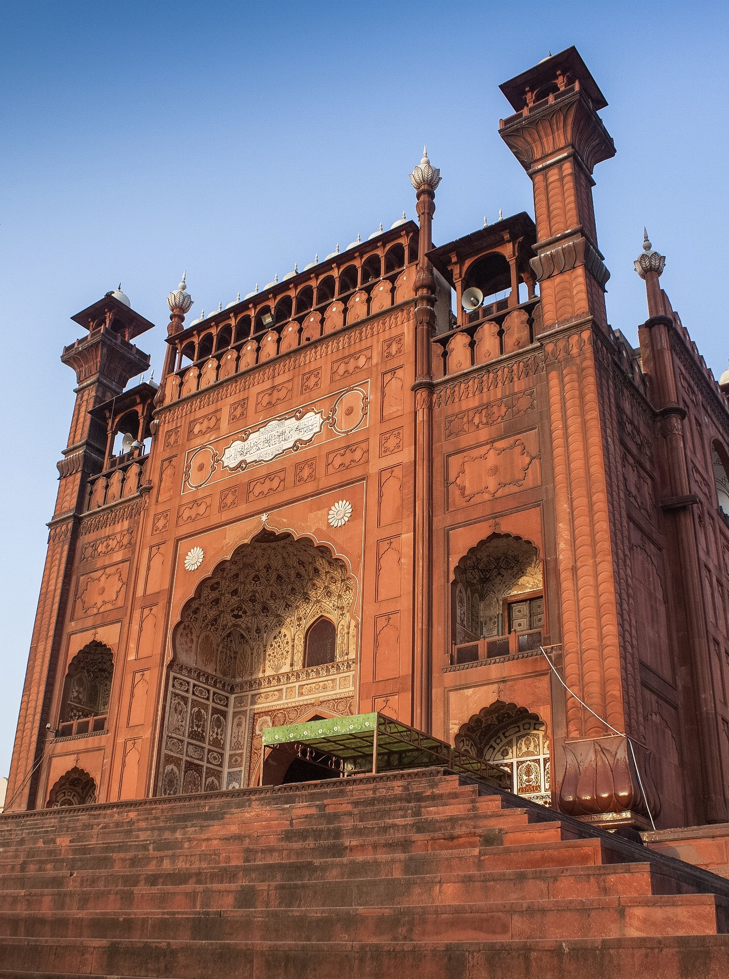 Badshahi Mosque (King’s Mosque) The beauty of this gate lies in the beautiful Mughal architecture, that can be seen throughout the building. The beautiful paintings and carvings are just breathtaking. This is a photo of a monument in Pakistan identified as the PB-44